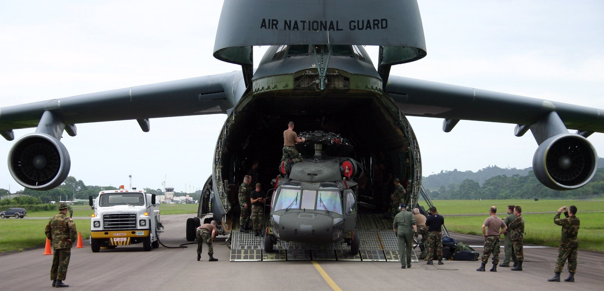 Crew members move a Sikorsky U.S. Army UH-60 Black Hawk off of a U.S. Air Force Lockheed C-5A Galaxy in La Ceiba, Honduras. The C-5, from the 105th Airlift Wing, New York Air National Guard, delivered three Black Hawks and a Humvee for the "New Horizons 2006 -- Honduras" joint training exercise. The Black Hawks, deployed here from the New York Army National Guard's 3-142 Aviation Battalion, provided transport and emergency evacuation support for New Horizons.